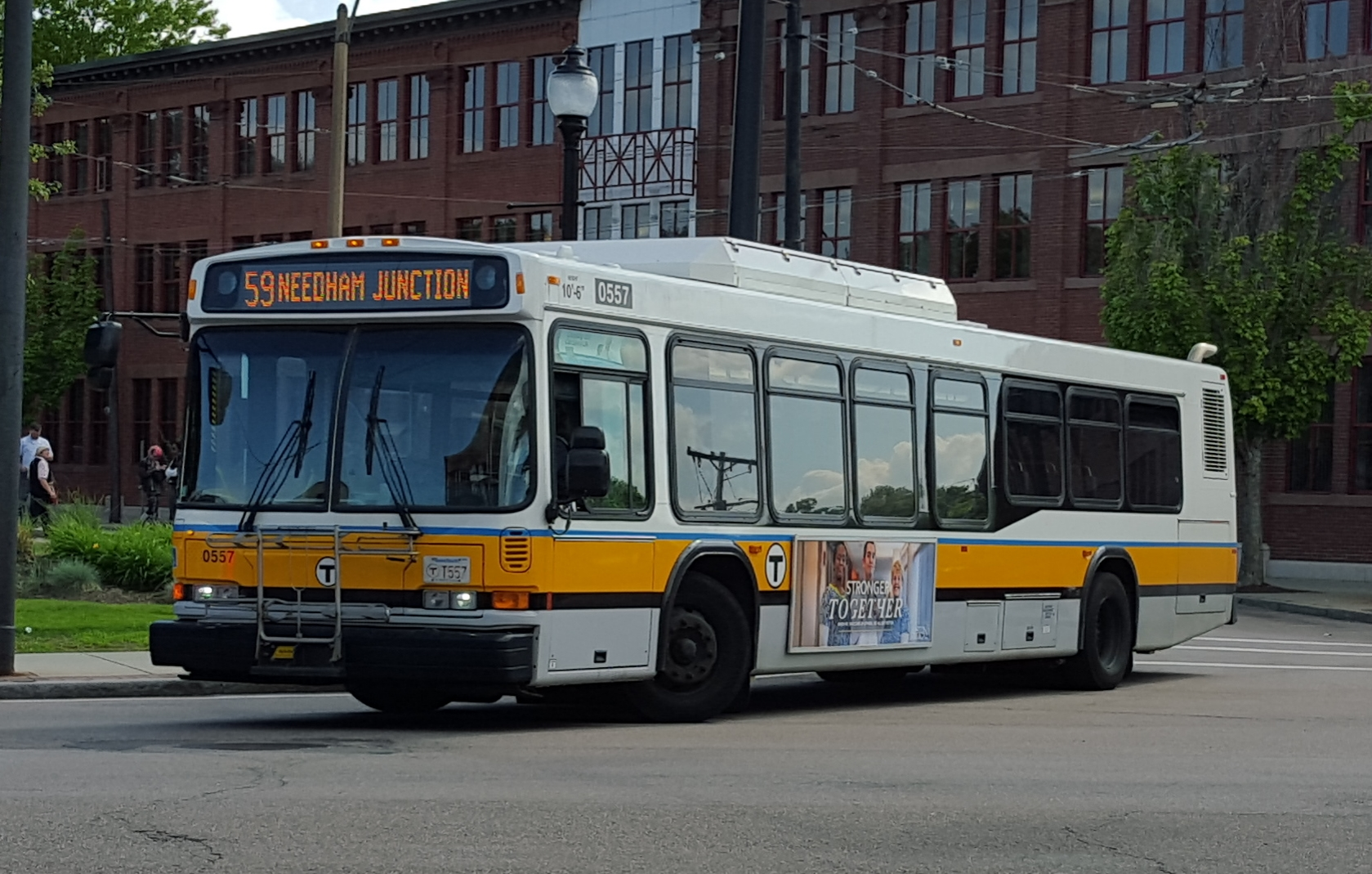 MBTA Neoplan AN440LF #0557 running route 59.